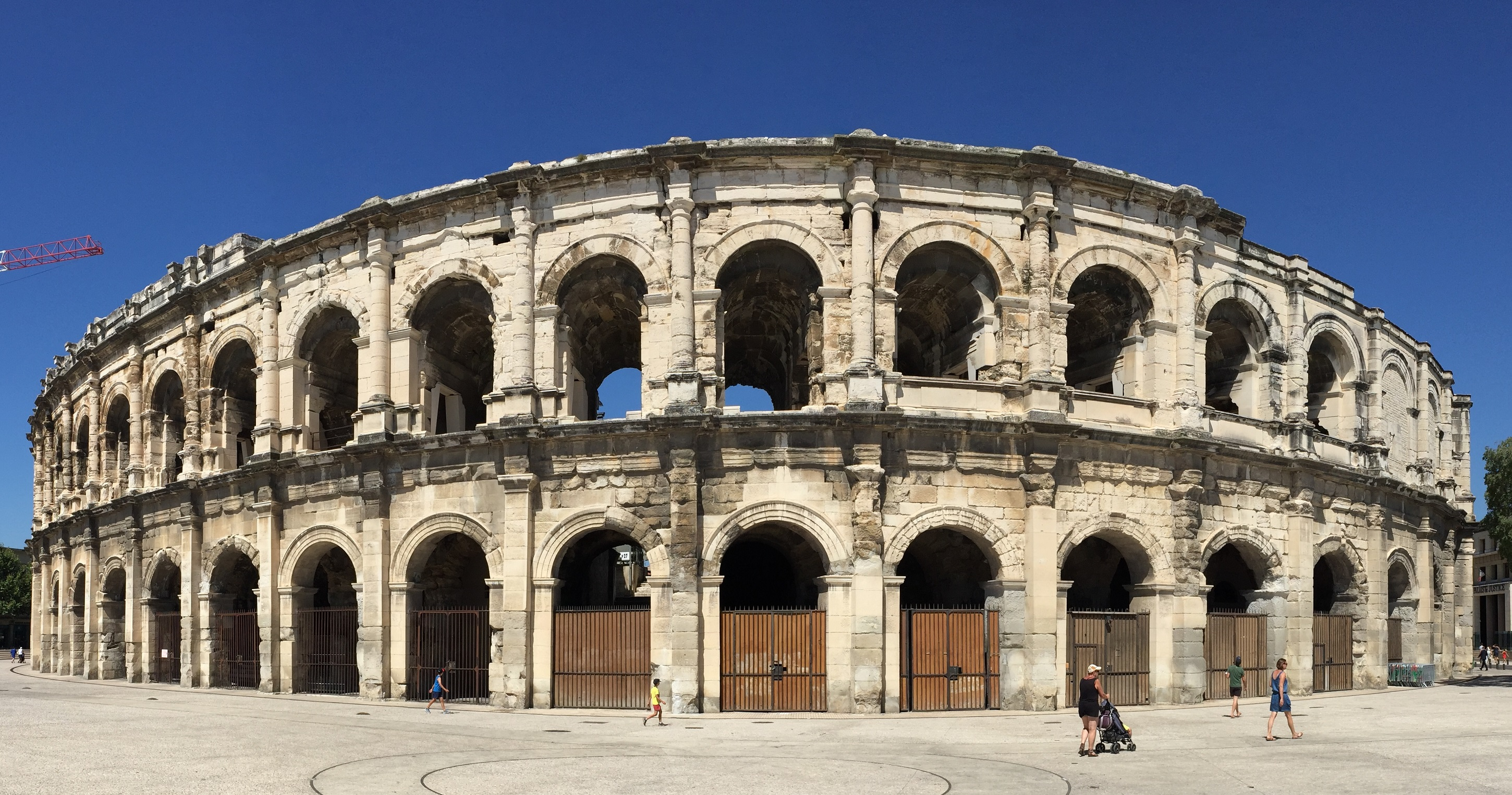 Arena of Nîmes, France